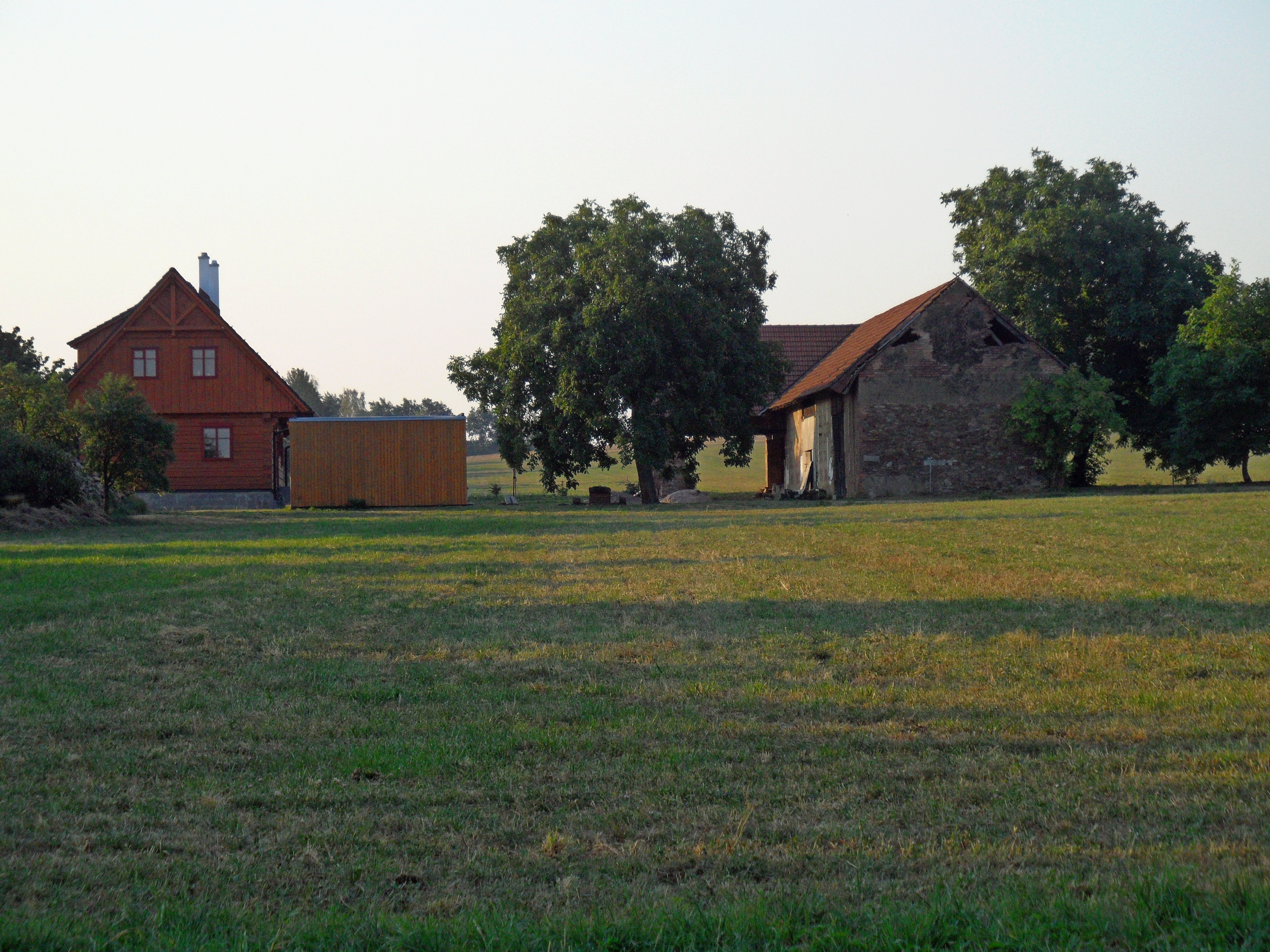 Košťany_(Vilémov) D. Family House and Old Building. Havlíčkův Brod District, the Czech Republic.